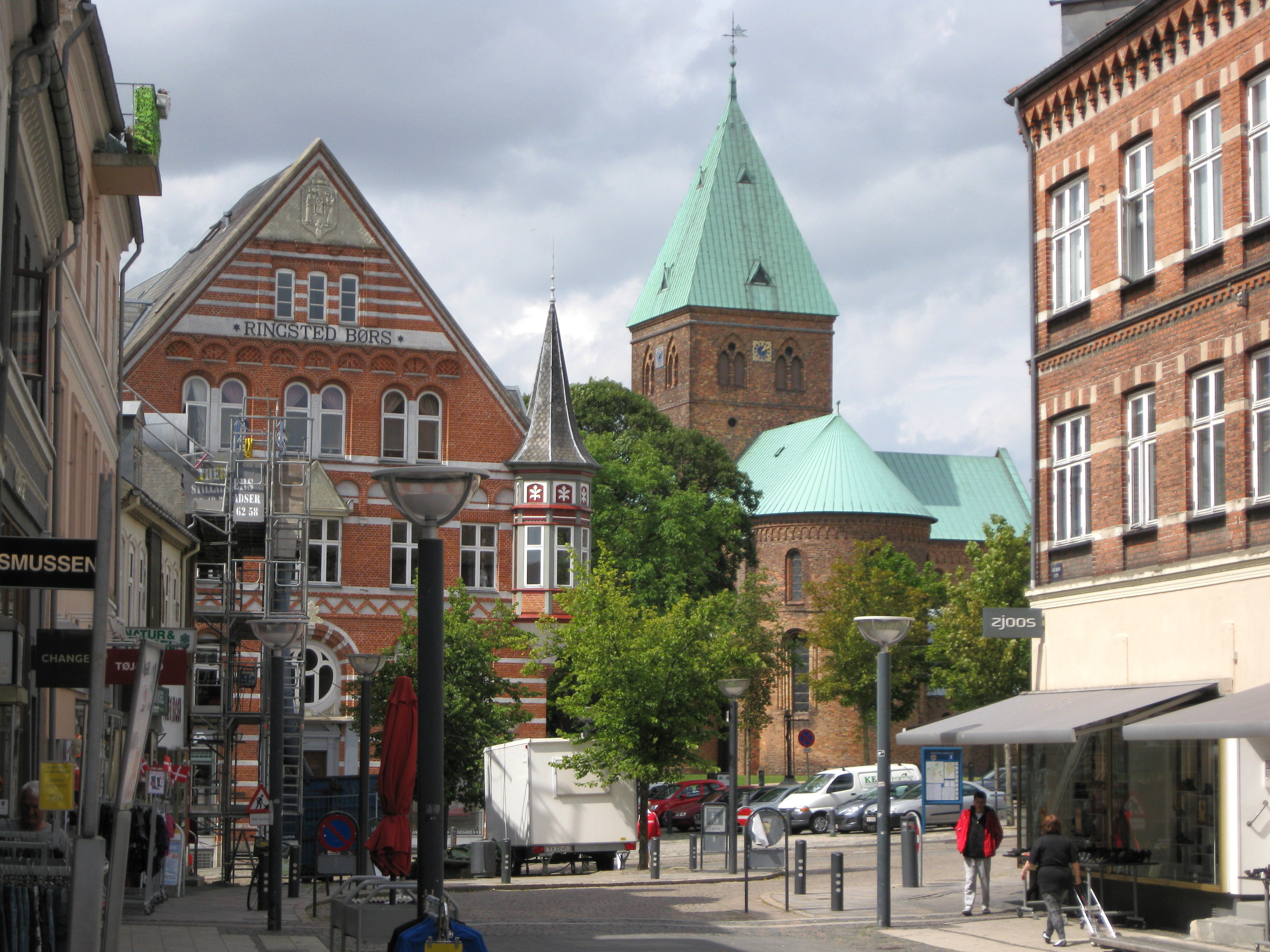 The street "Sct. Hans Gade" in the town "Ringsted", and the church "Sankt Bendts Kirke" seen in the background. The town is located on Mid Zealand in east Denmark.